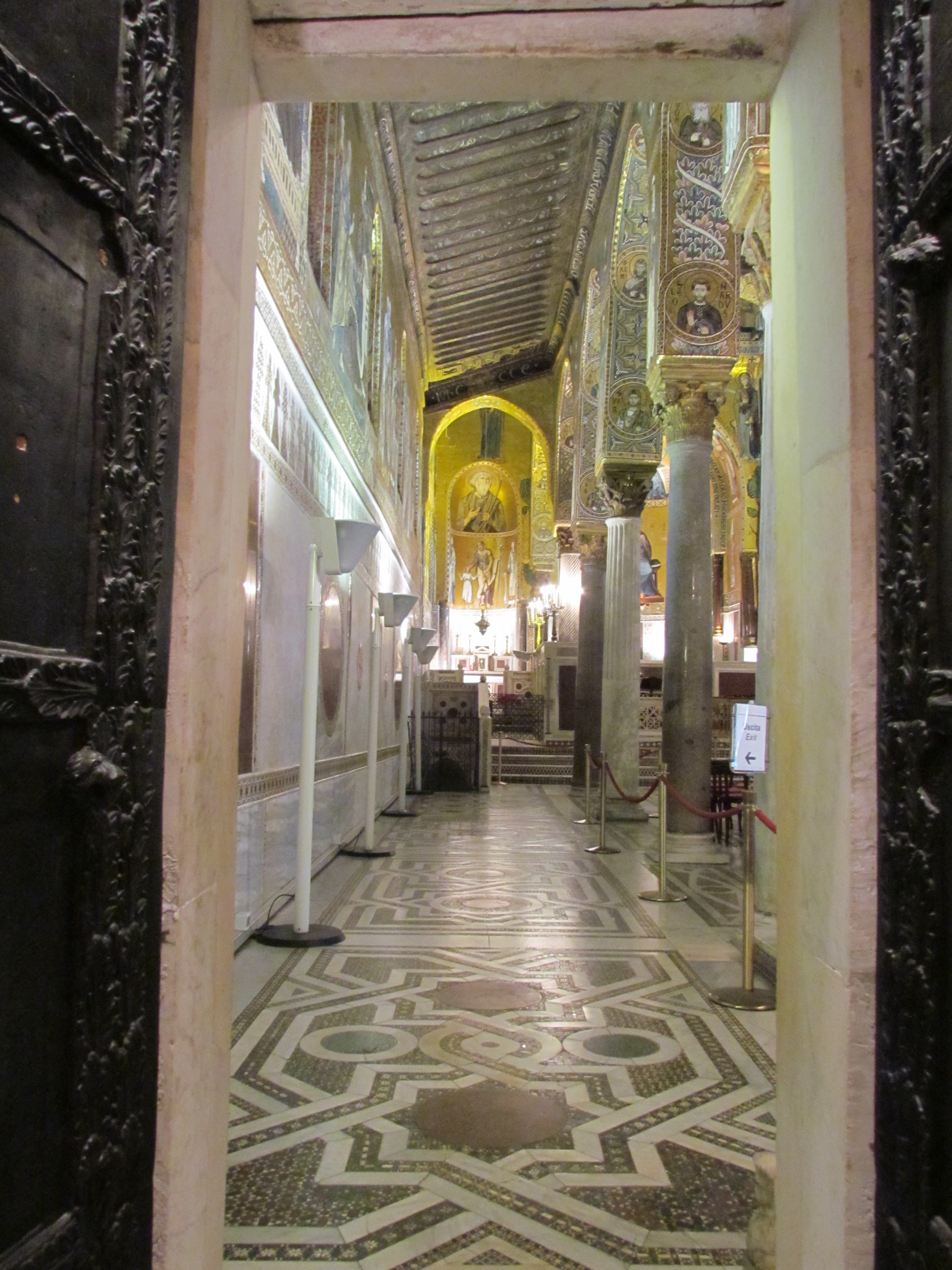 North nave (Cappella Palatina, Palermo)